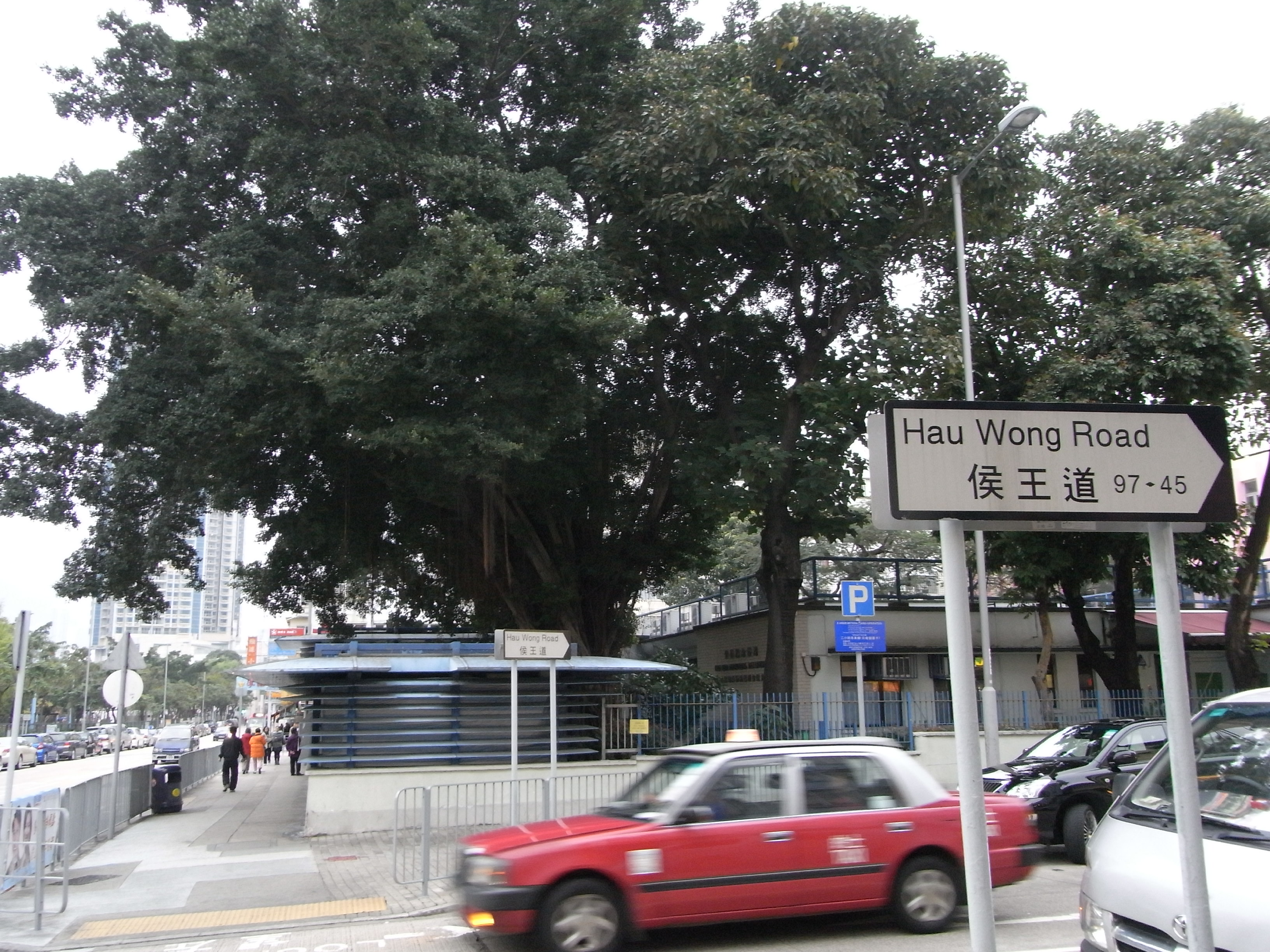 九龍城 侯王道 賈炳達道